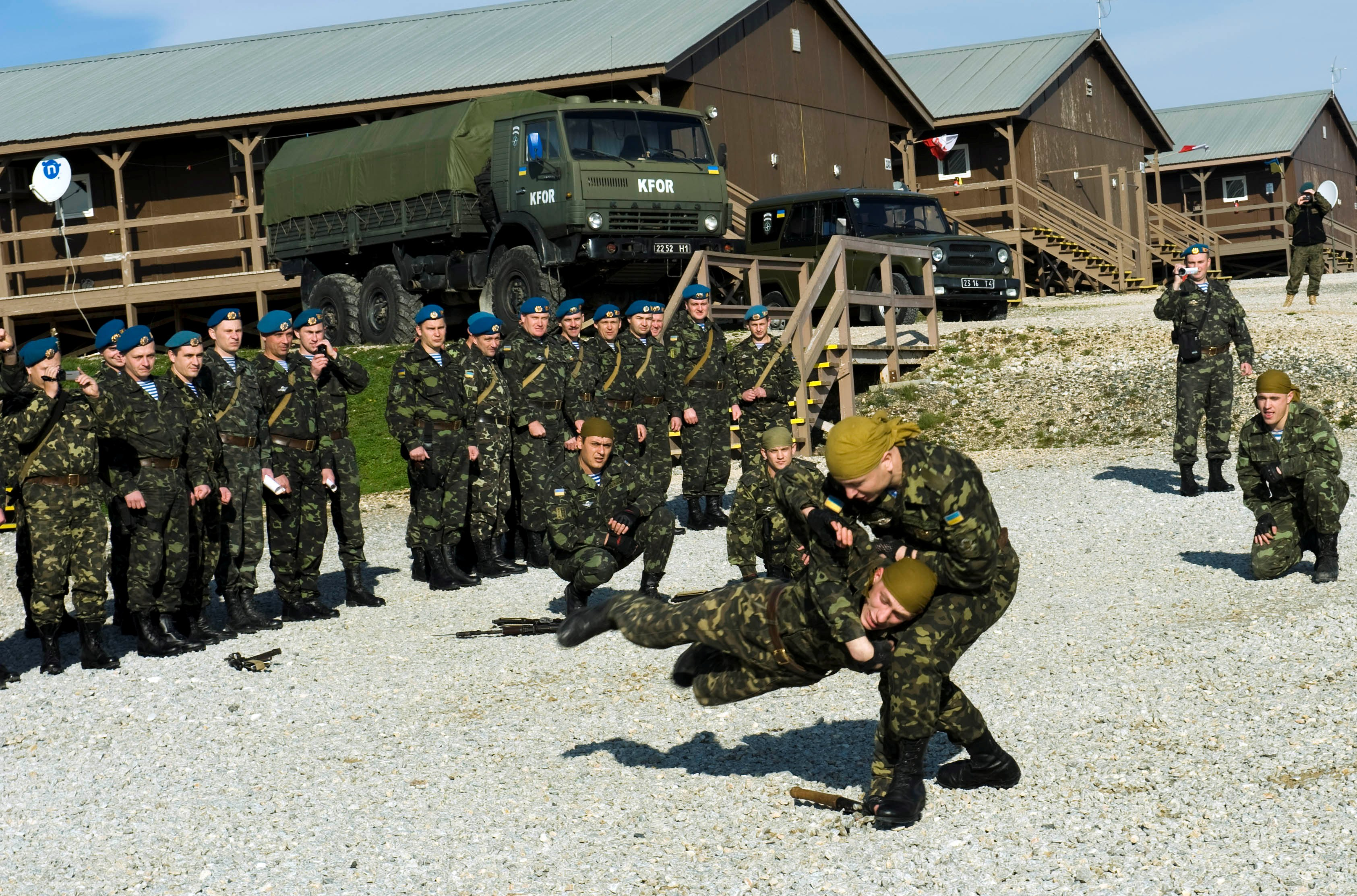 Ukraine Warrant Officer Evgen Dzybak, right, takes down Pvt. Vladimir Filonok during a martial arts demonstration, on Ukraine Armed Forces Day in Camp Bondsteel, Kosovo, Dec. 6, 2010. Both soldiers are members of the 79th Airmobile Brigade, an elite paratrooper unit with specialized training in hand-to-hand combat.